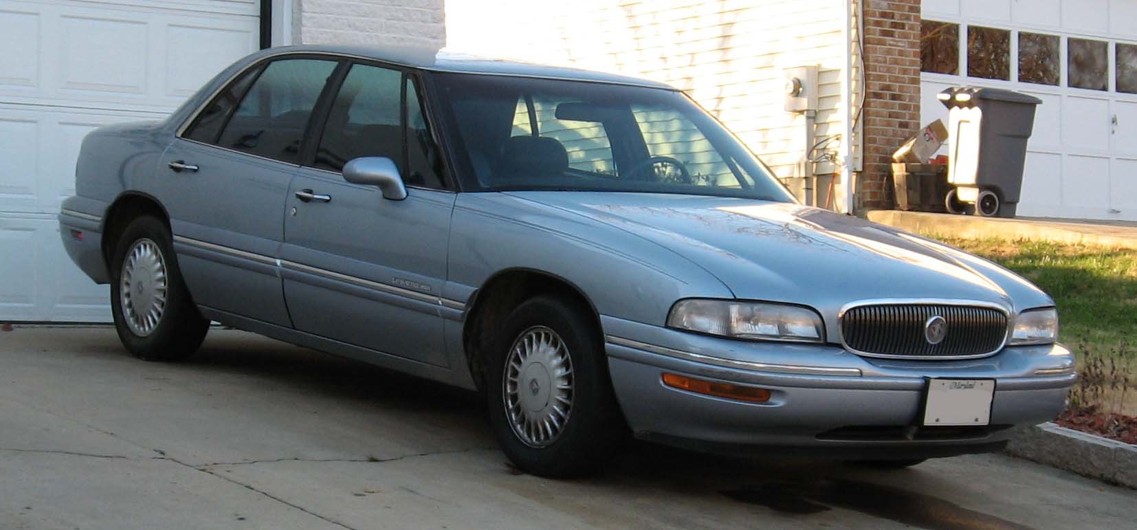 1997-1999 Buick LeSabre photographed in USA.